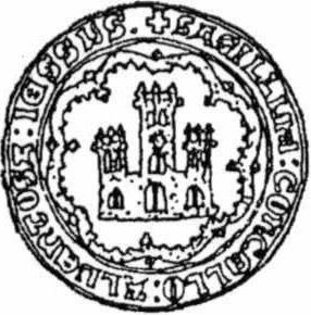 Coats of arms of Albentosa